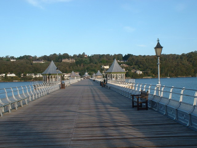 Bangor Pier Looking towards Anglesey.